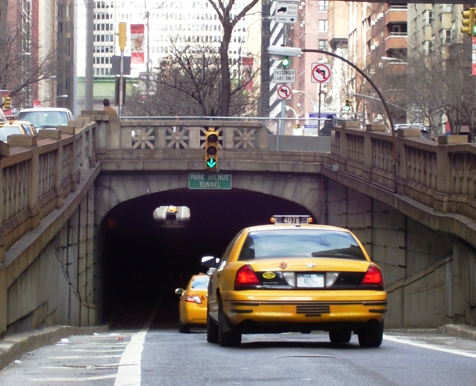 The Park Avenue Tunnel was built in 1834 as an open cut to carry New York & Harlem Railroad trains, and later their streetcars. It was roofed over in 1850. After the construction of Grand Central Terminal, the tracks were removed and the tunnel was used for vehicular traffic. Prior to August 2008, it carried two lanes of traffic, one northbound and one southbound, between East 33rd Street and East 40th Streets, but today it carries only one northbound lane, for reasons of pedestrian safety. At the end of the tunnel, a ramp leads up to the Park Avenue Viaduct which travels over 42nd Street, around Grand Central and the Met Life Building, through the New York Central Building and down onto East 46th Street. Drivers may also choose not to take the ramp and go down Park Avenue at street level to 42nd Street.